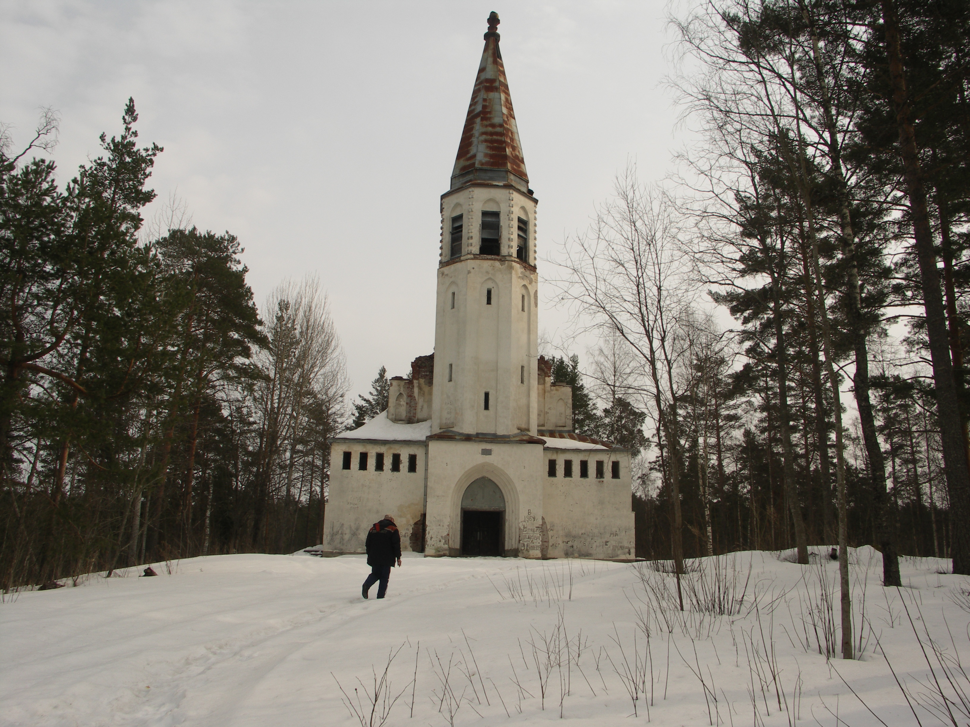 Lutheran church of Lumivaara